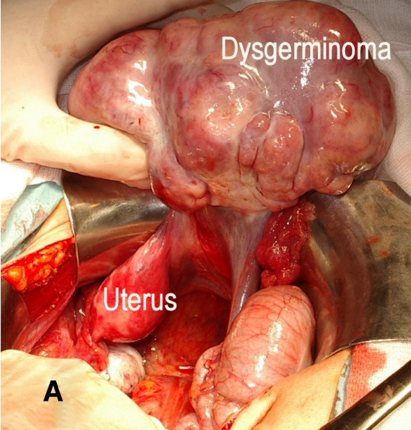 Right ovarian tumor and uterus.